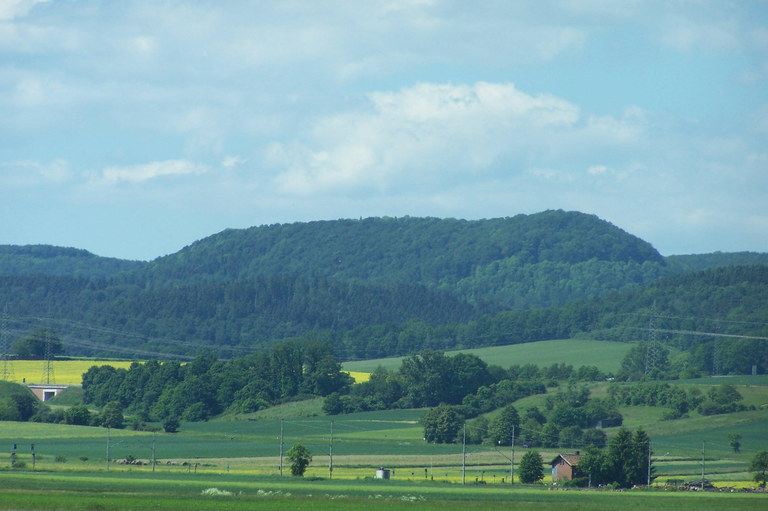 The Schlossberg hill with the ruins of the Brandenfels castle.